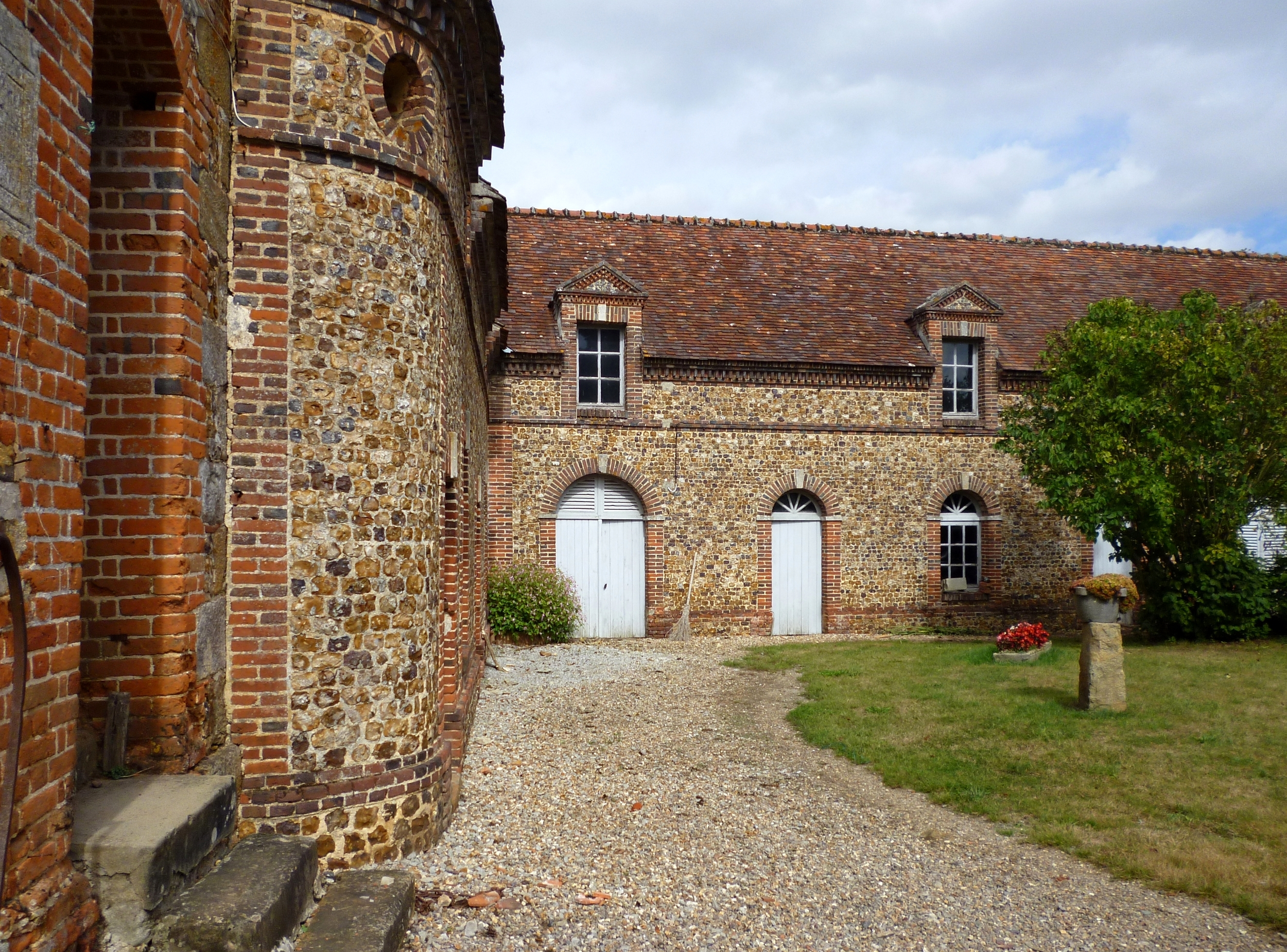 Inner courtyard of Château du Blanc-Buisson in Saint-Pierre-du-Mesnil (Eure, France).